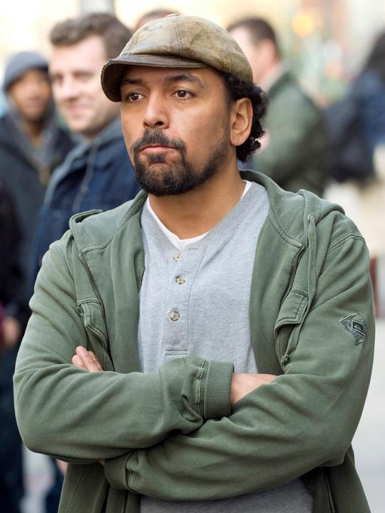 Felix Solis Behind The Scenes